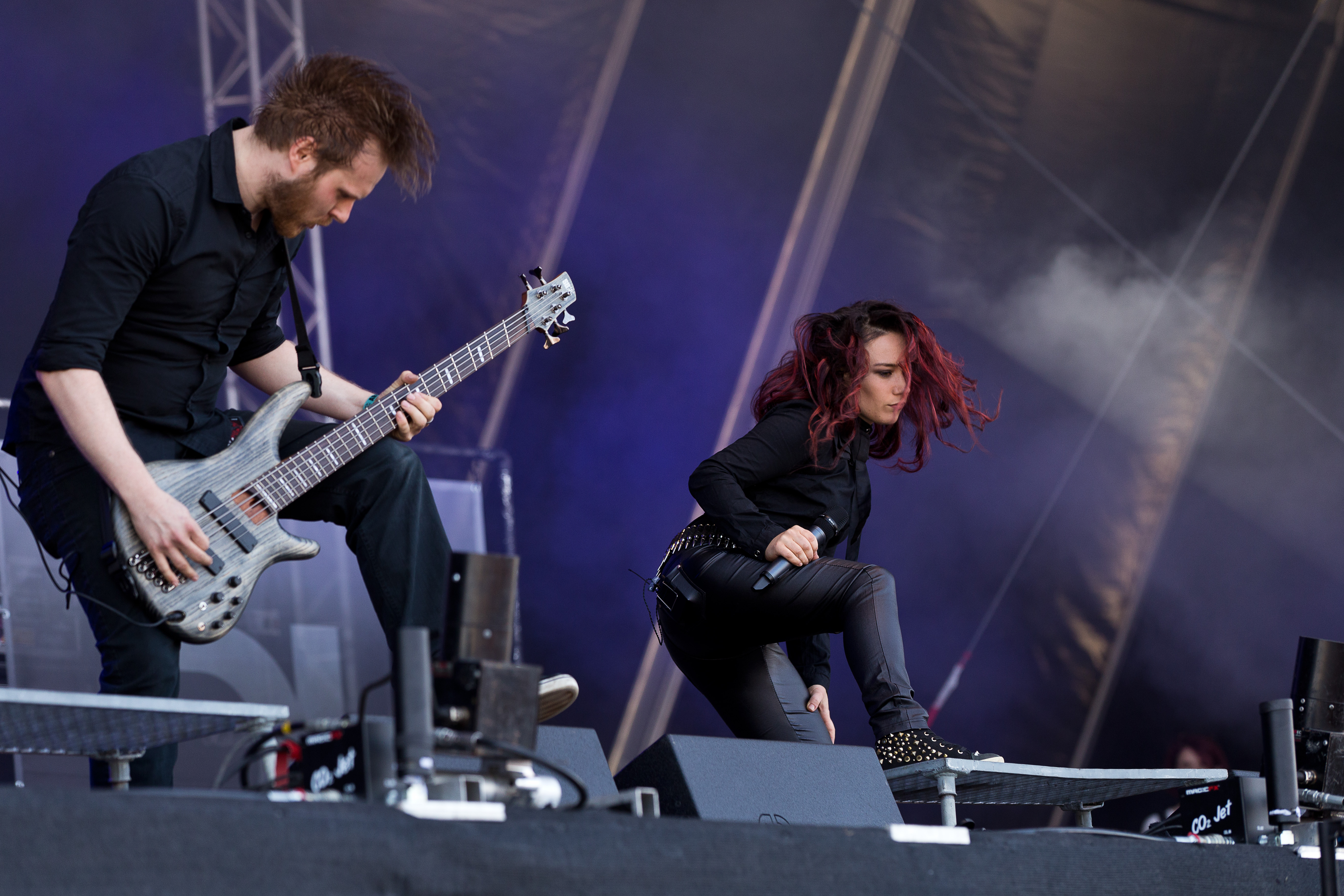 The German melodic death metal band Deadlock at the Rockharz Open Air 2016 in Ballenstedt/Germany.